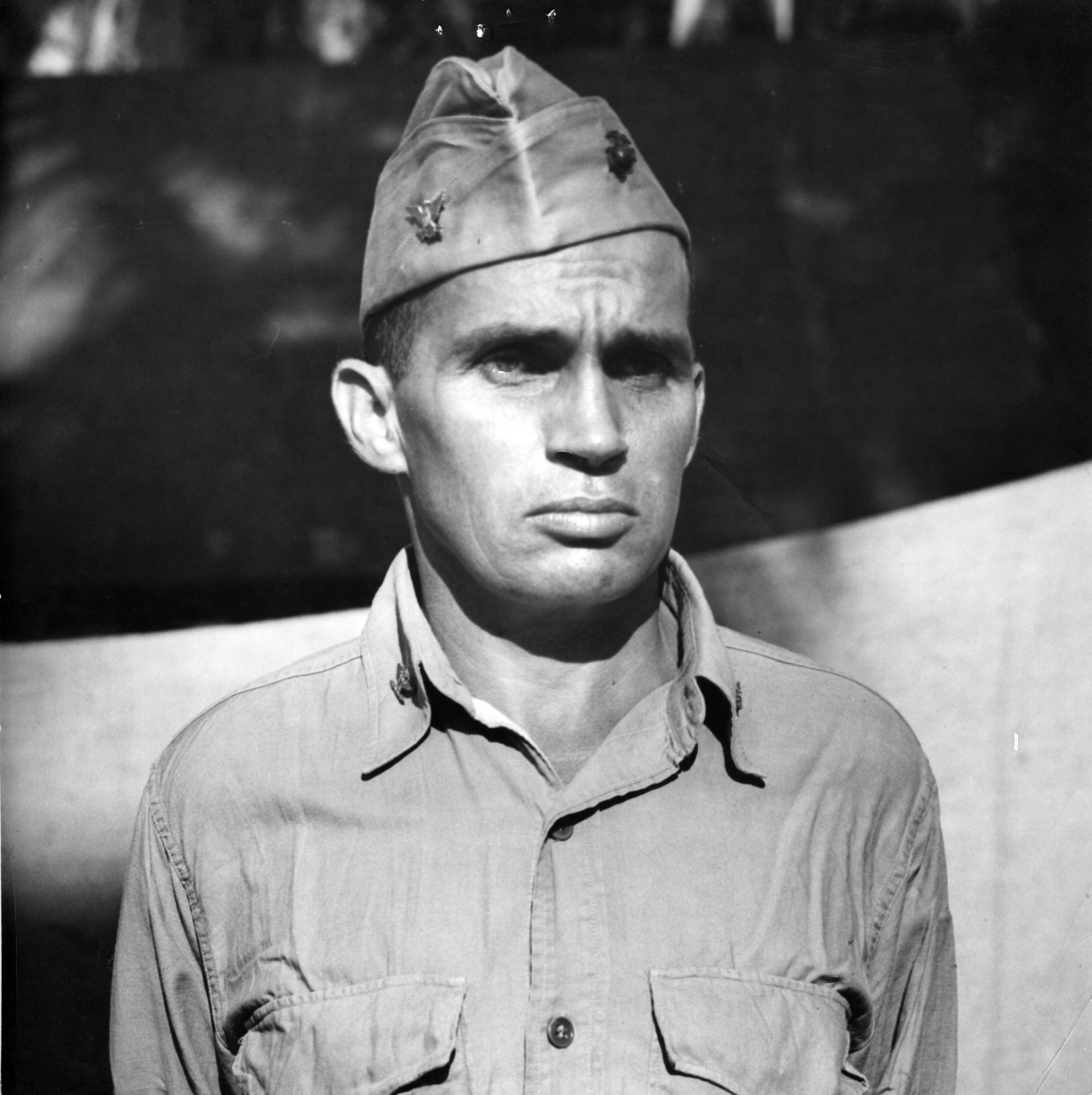 Edward Walter Snedeker (February 19, 1903 - May 5, 1995) was a highly decorated officer of the United States Marine Corps with the rank of Lieutenant General. He was decorated with Navy Cross, the United States military's second-highest decoration awarded for valor in combat, for his service as Commanding officer of 7th Marine Regiment during the Battle of Okinawa in June 1945. He completed his career as Commandant of the Marine Corps Schools, Quantico on July 1, 1963. Here as Colonel during World War II.